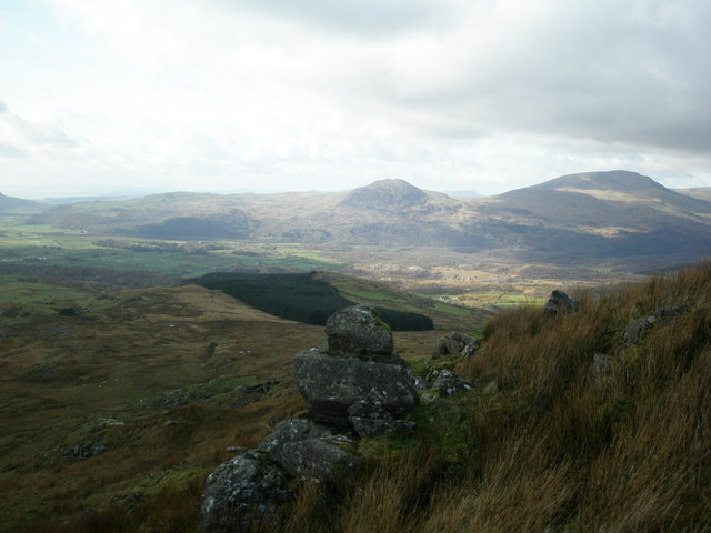 Rocks on side of Moelwyn Bach Looking towards Moel ddu / Moel Hebog